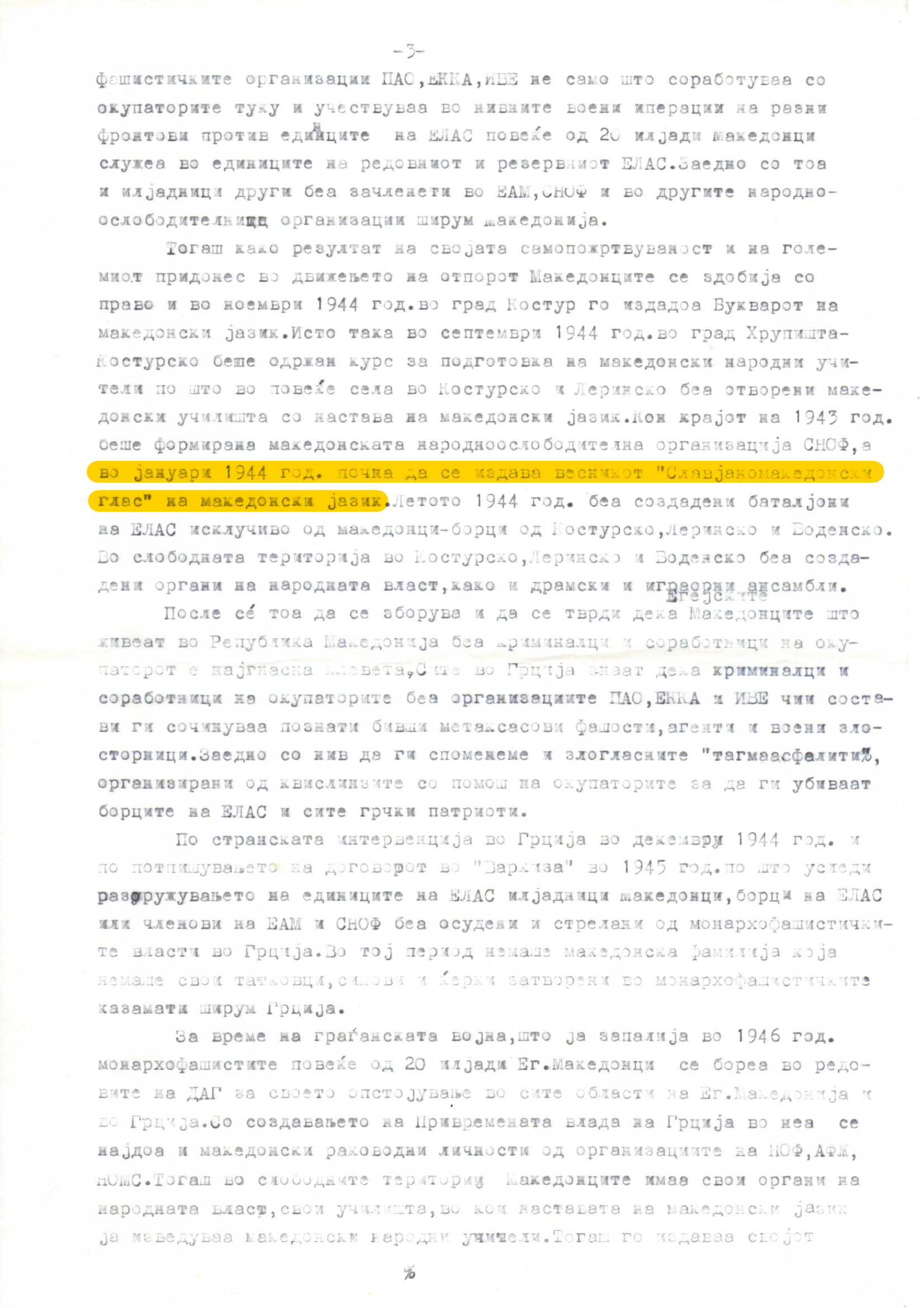 The struggles of the Macedonians from Aegean Macedonia between 1943-1944 - Aleksandar Ivanovski